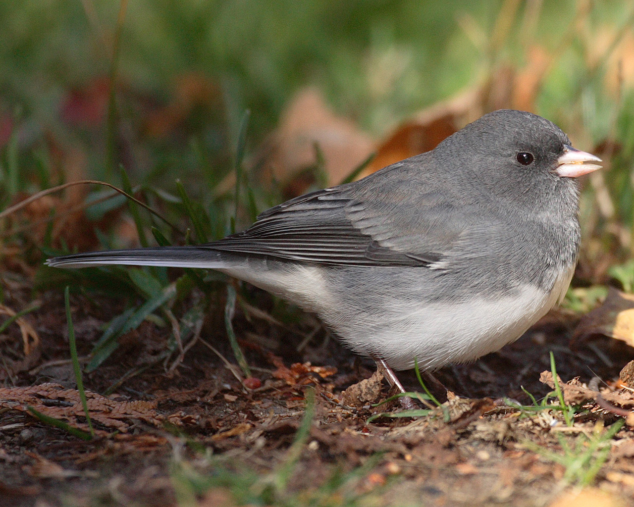 Description: Slate-colored Junco (Junco hyemalis hyemalis), Algonquin Provincial Park, Canada, 2005 Photograph: Mdf first upload in en wikipedia on 15:21, 12 October 2005 by Mdf Licence